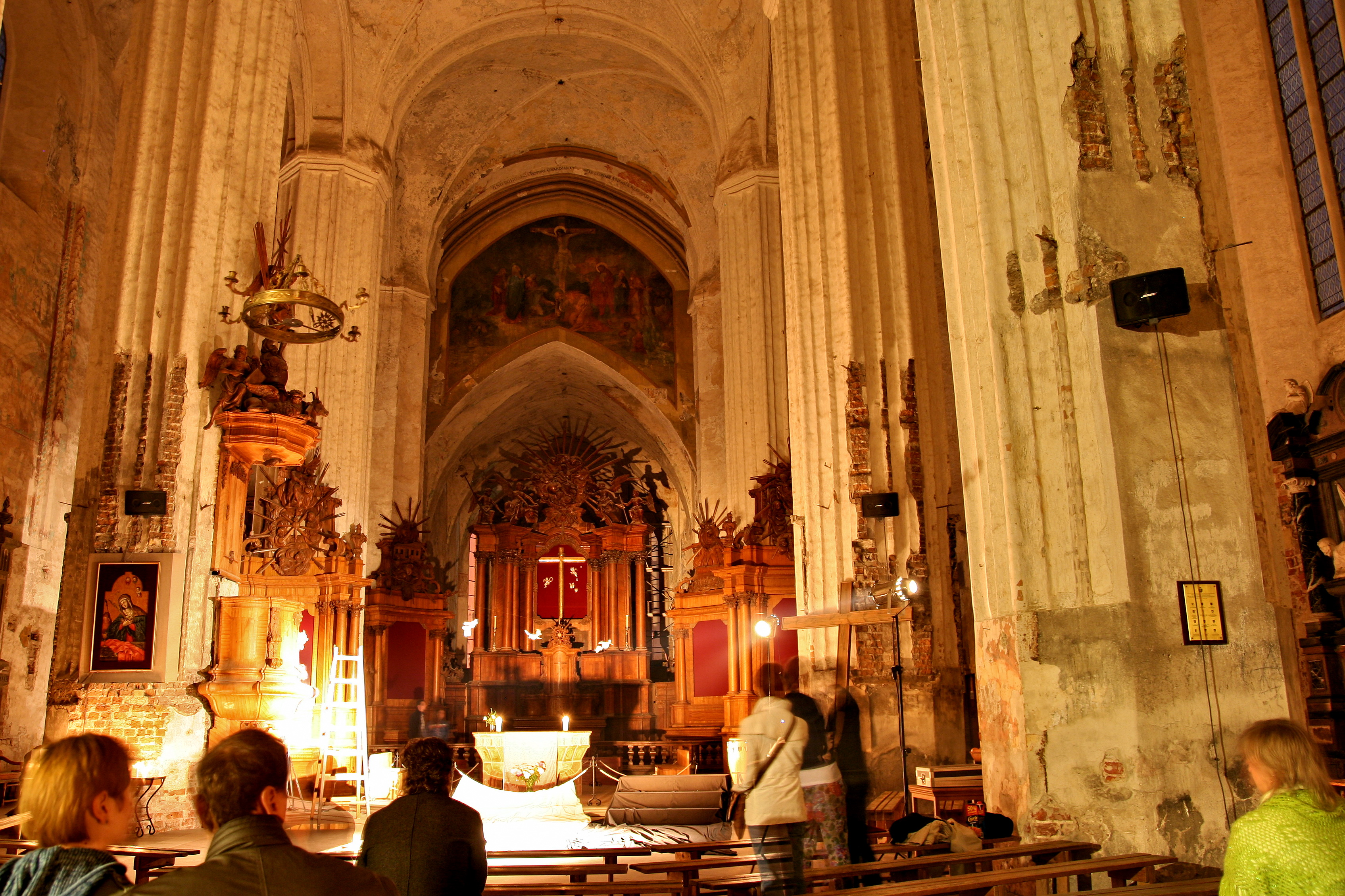 Interior of the church of St. Francis of Asisi in Vilnius at night